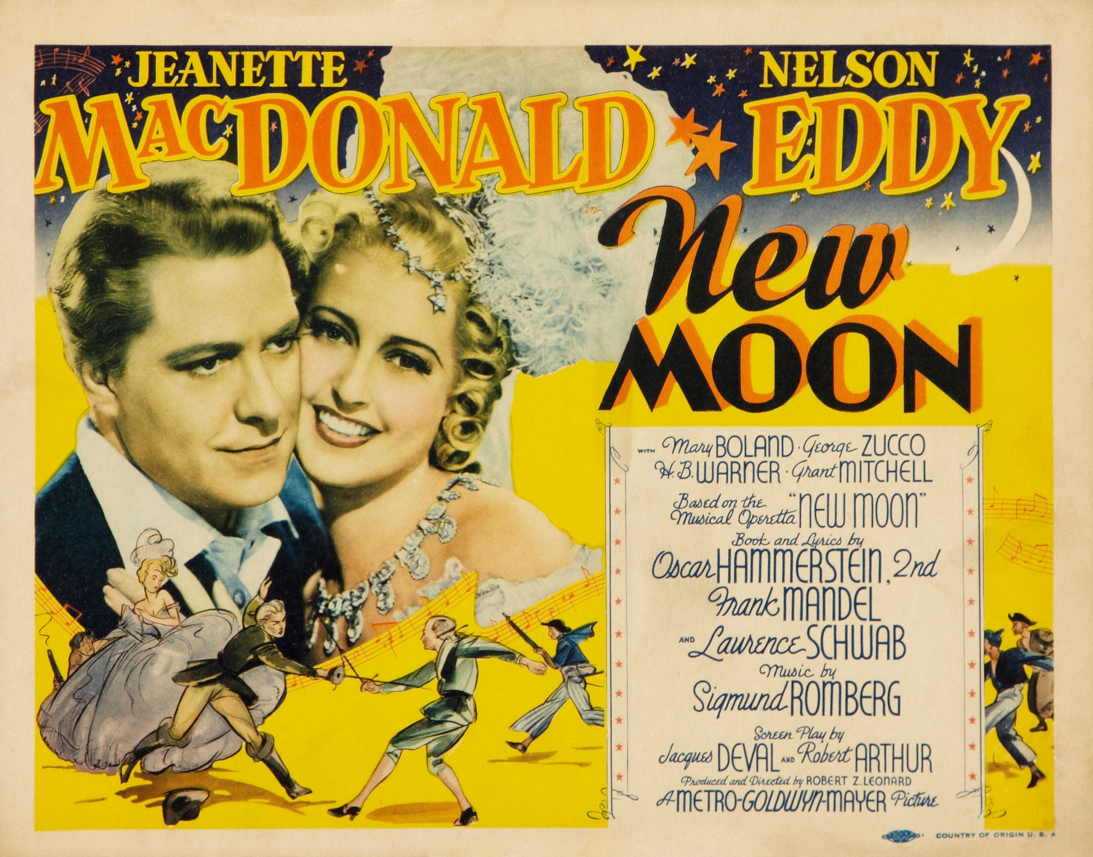 Film poster for the 1940 musical film New Moon